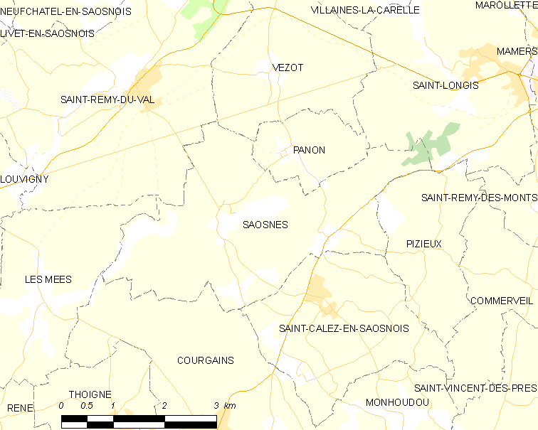 Map of French municipality